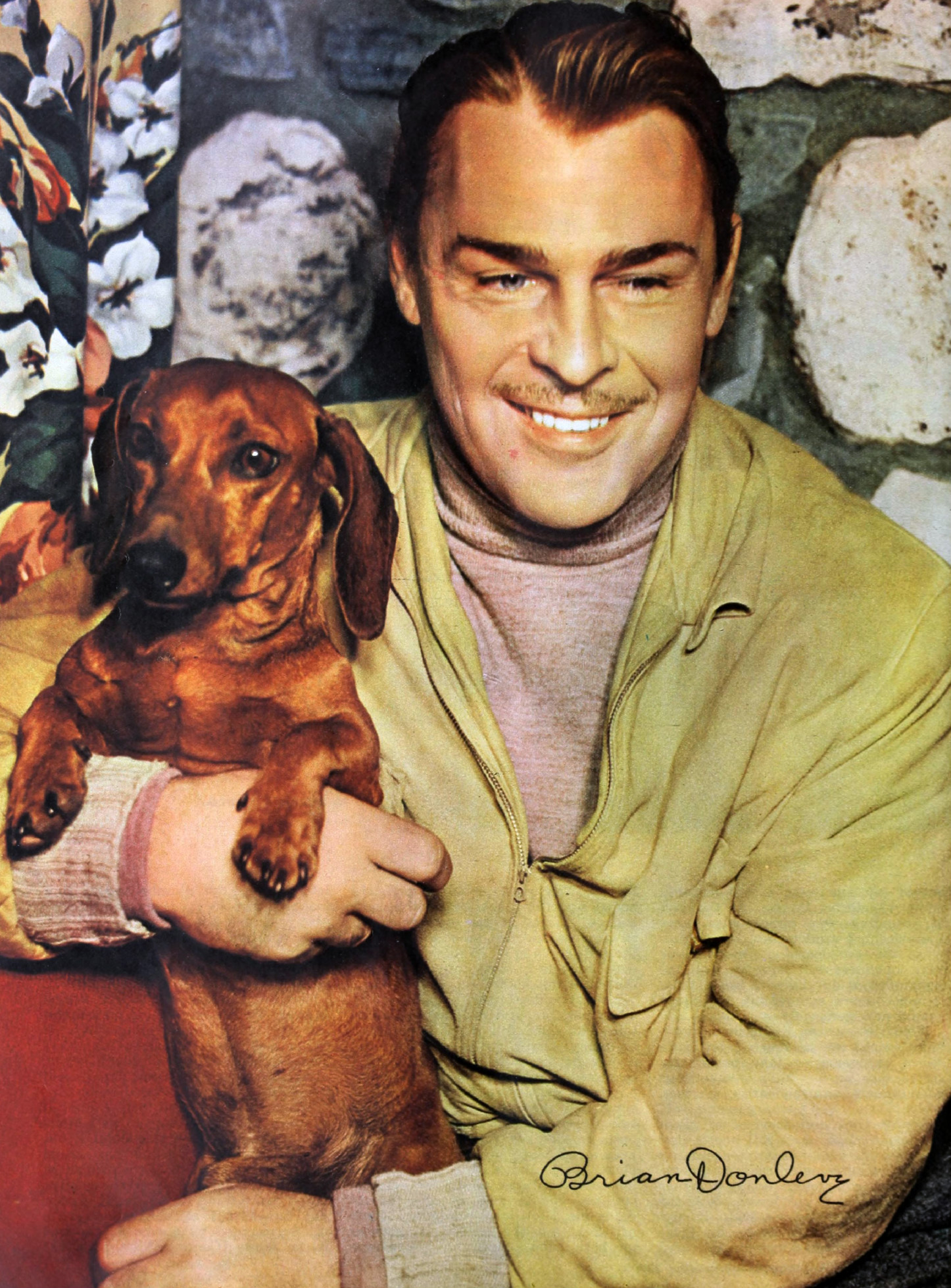 Photo of Brian Donlevy from 1943.